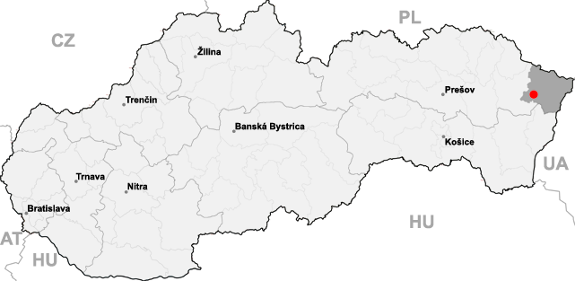 map of Slovakia, municipality of Snina highlighted